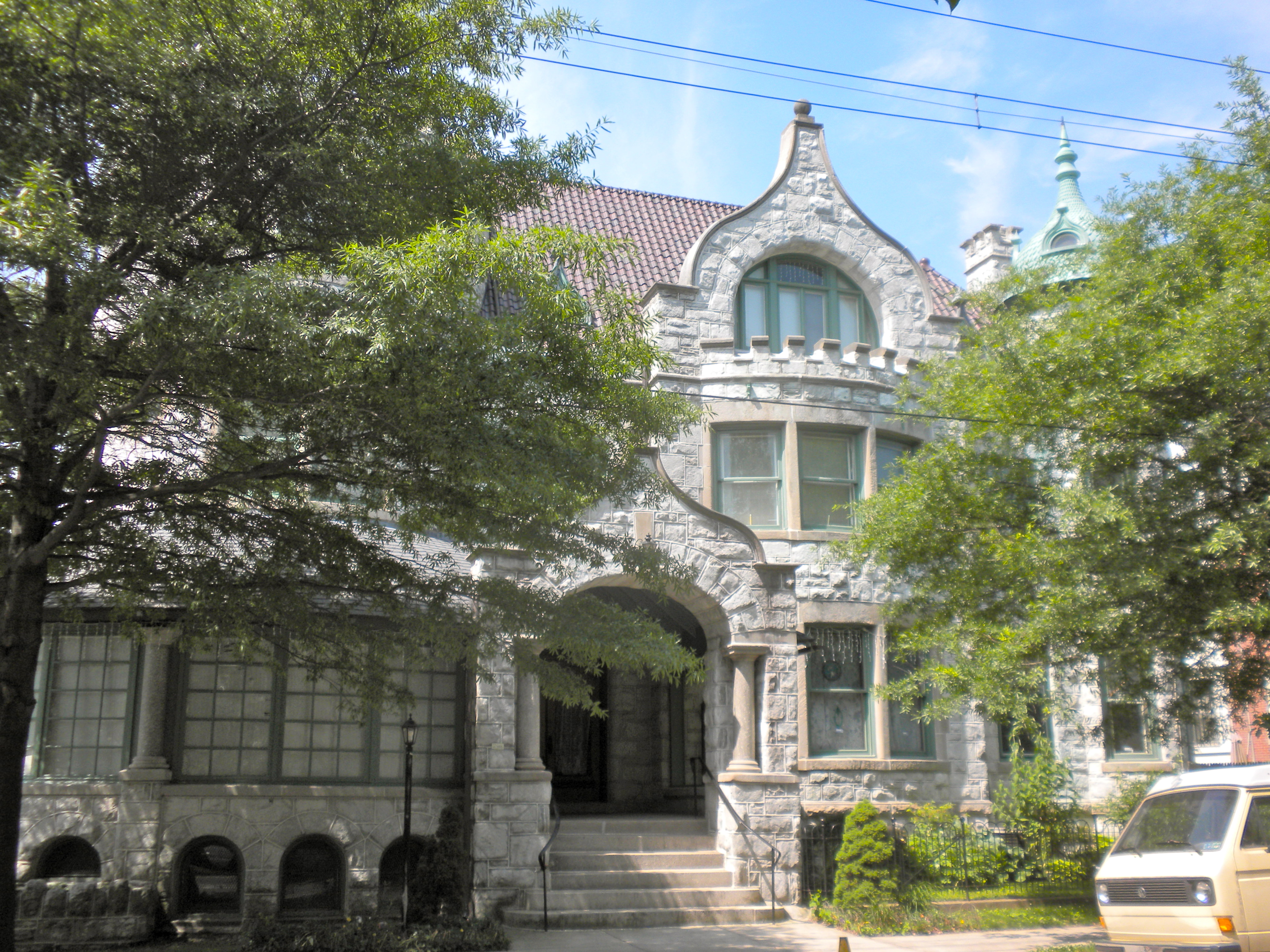 Hanson Haines House on NRHP since January 29, 1985. At 4801 Springfield Avenue in Spruce Hill neighborhood of west Philadelphia.